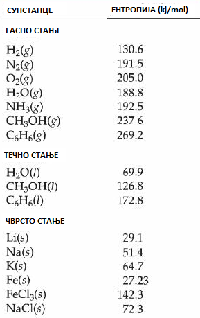 Table with entropies